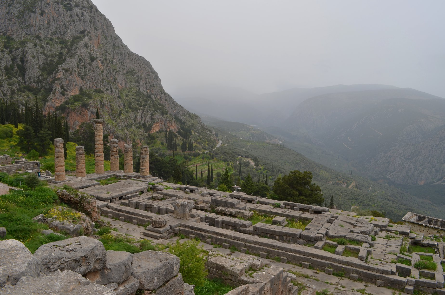 Fog in the valley behind the temple of Apollo in Delphi, Greece